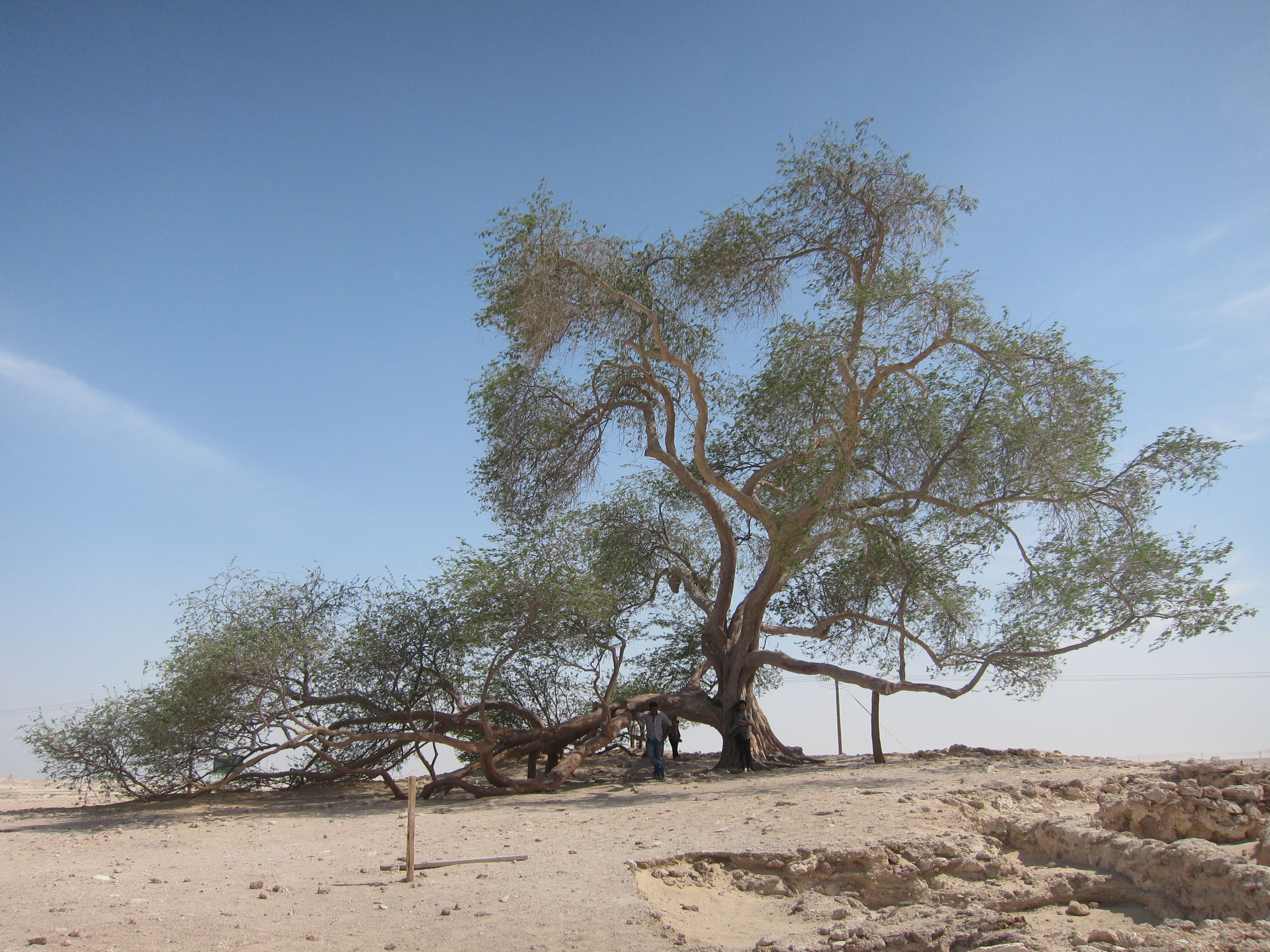 Tree of Life, Bahrain - ജീവന്റെ മരം, ബഹ്റൈൻ ബഹ്‌റൈനിലെ ജബൽ ദുക്കാൻ പ്രദേശത്ത് നിന്ന് രണ്ട് കിലോമീറ്റർ (1.2 മൈൽ) ദൂരെയുള്ള മരുഭൂമിയിലാണ് ജീവന്റെ മരം (Tree of Life, Shajarat-al-Hayat) എന്ന വിശേഷണമുള്ള പ്രോസൊപിസ് സിനറാറിയ (Prosopis cineraria) എന്ന മരം നിൽക്കുന്നത്. 9.75 മീറ്റർ (32 അടി) ഉയരമുള്ള ഈ മരം 500 വർഷം പഴക്കവും 7.6 മീറ്റർ (25 അടി) ഉയരമുള്ള മൺക്കുനയിലാണ് നിൽക്കുന്നത്.